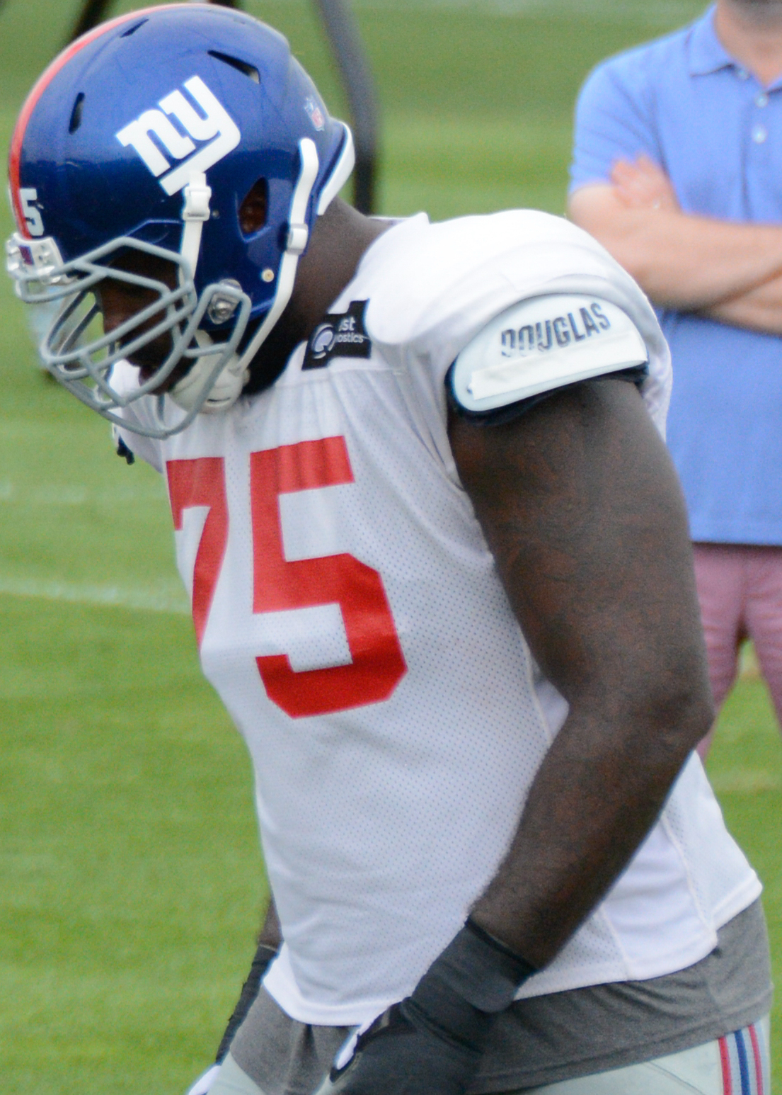 New York Giants training camp